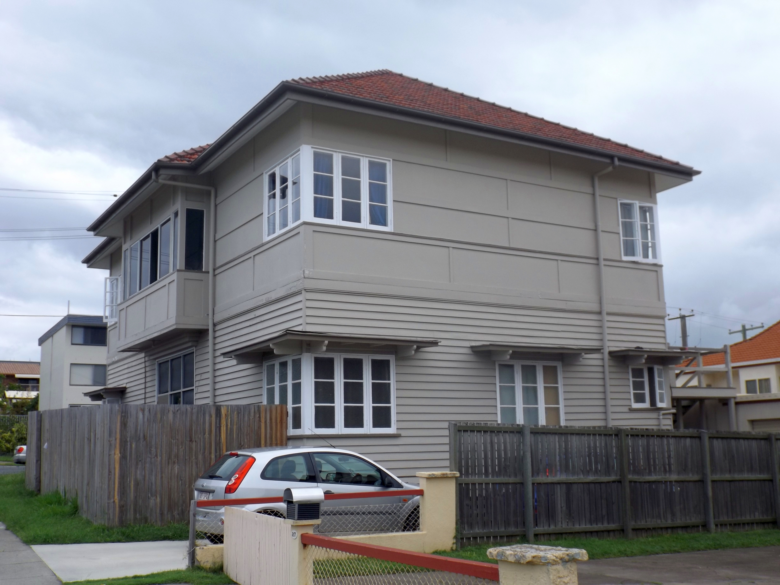 Photo of Coorparoo Fire Station at Coorparoo, Brisbane, Queensland, Australia.